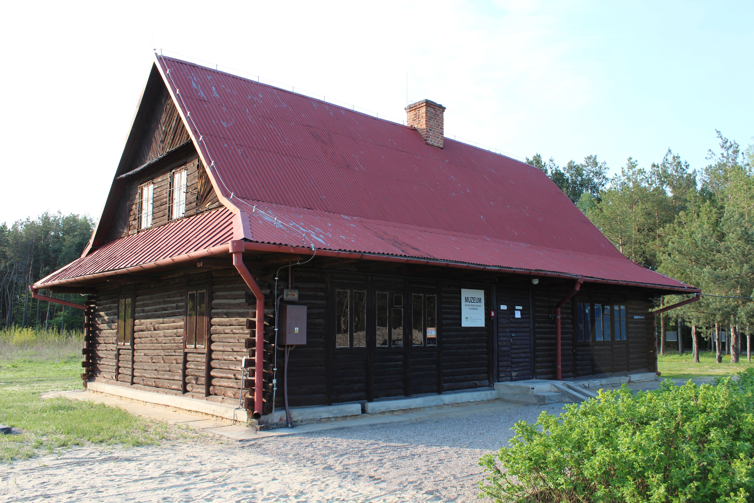 Sobibór german extermination camp